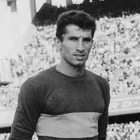 Antonio Rattin during his time with Boca Juniors in Argentina. He played his last game for the club in 1970.